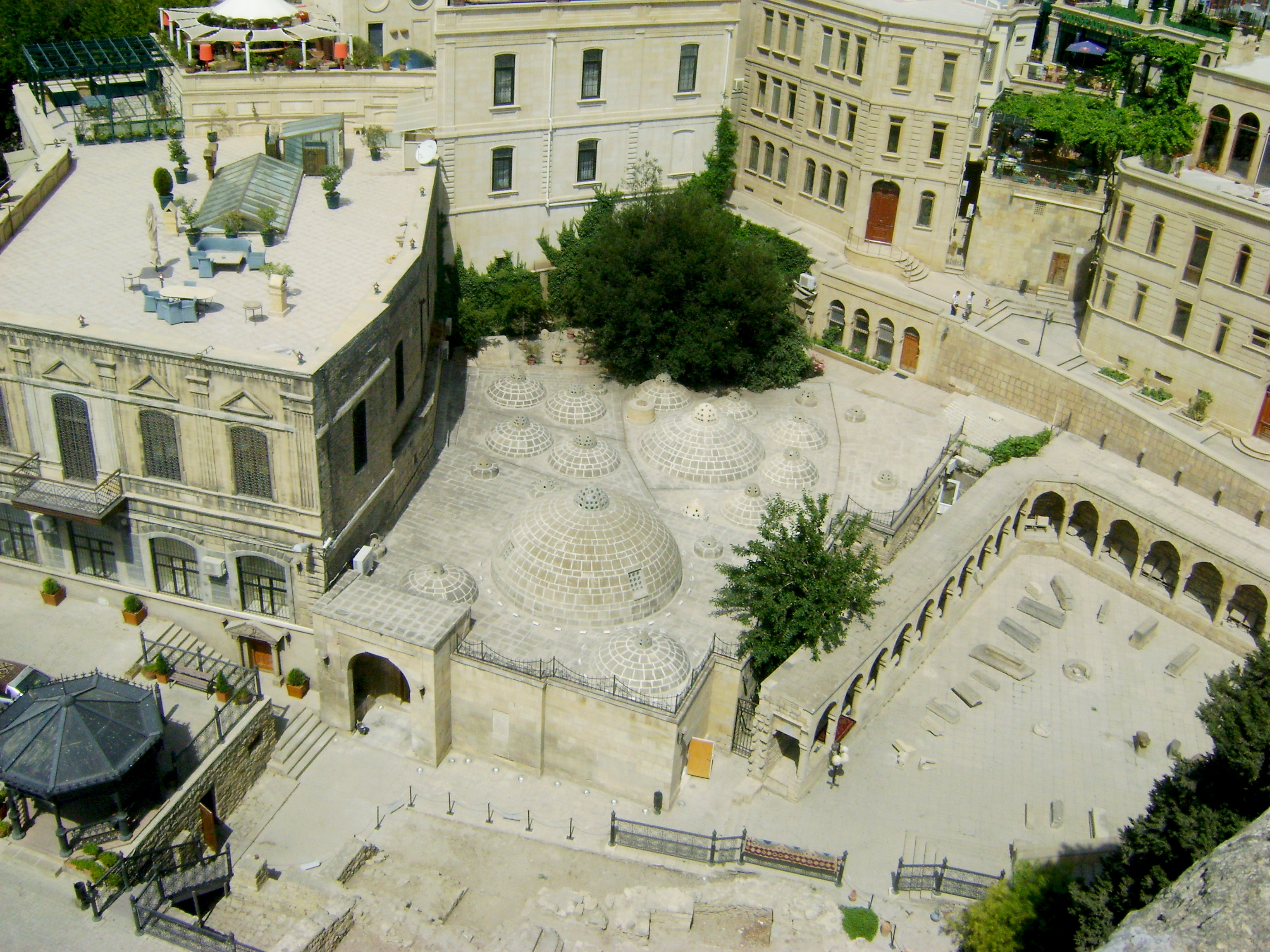 maiden_towers_top_old_city_baku_azerbaijan - 12th century - view of Old City (bazaar- market) from the Maiden's tower